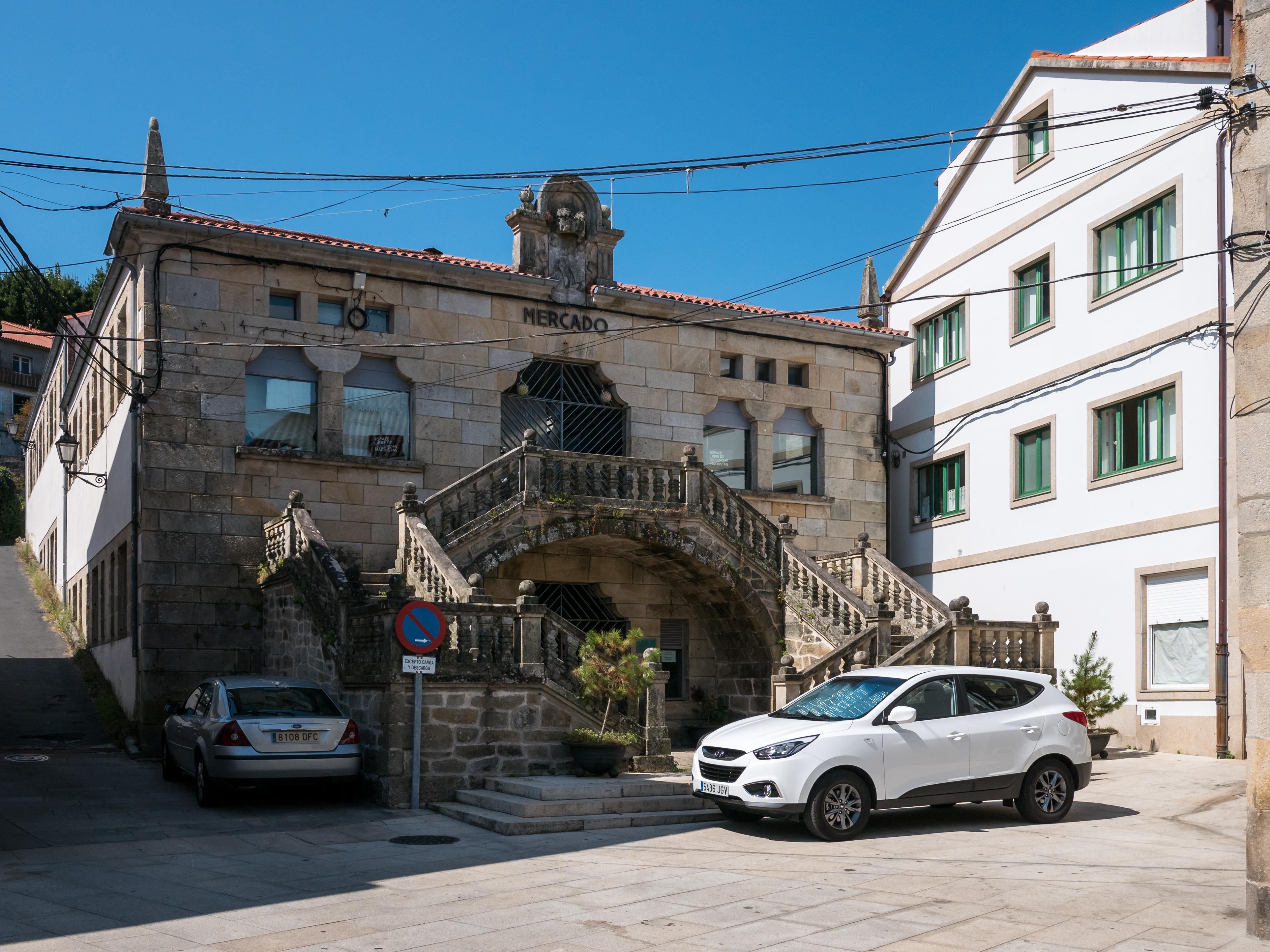 Market hall in Muros. La Coruña, Galicia, Spain